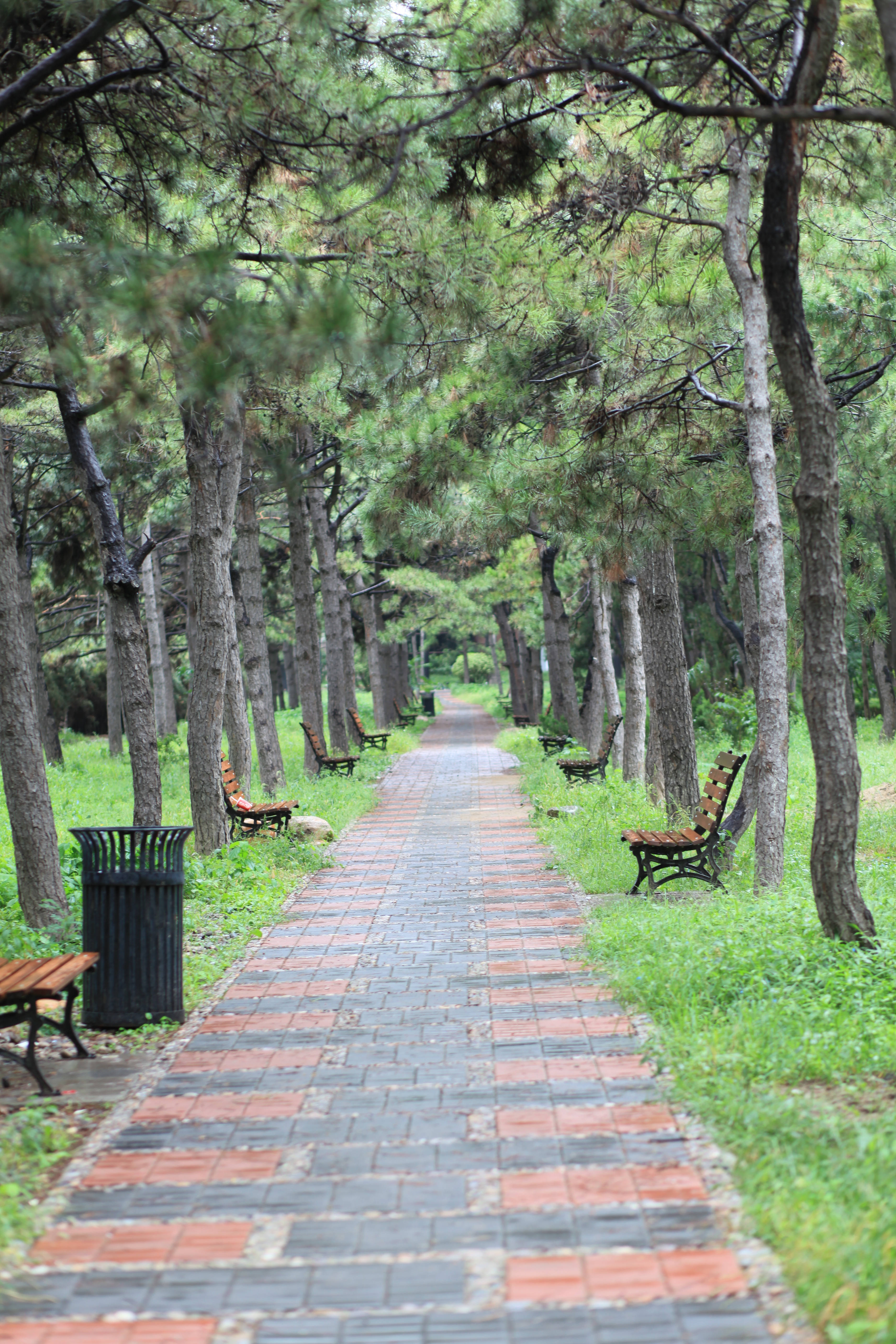 Tsinghua University path